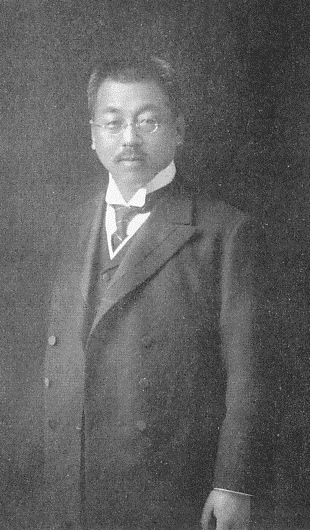 Michizane Kujo